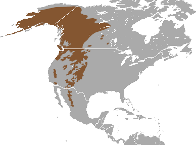 Dusky Shrew (Sorex monticolus) range